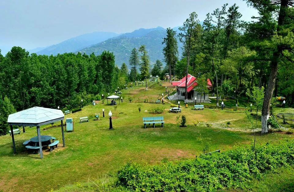 greeny view of Dirkot park from Neela But road